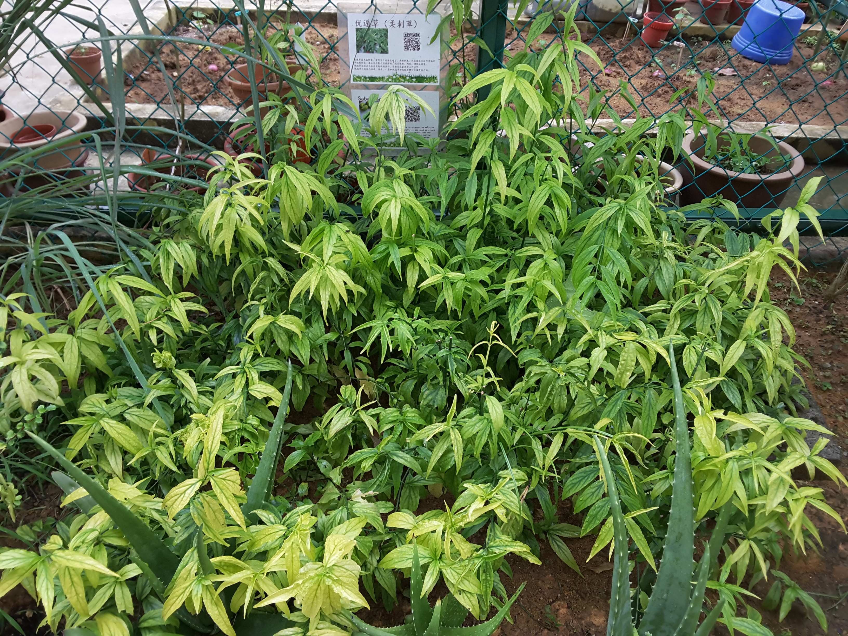 U-turn grass cultivation in Singapore